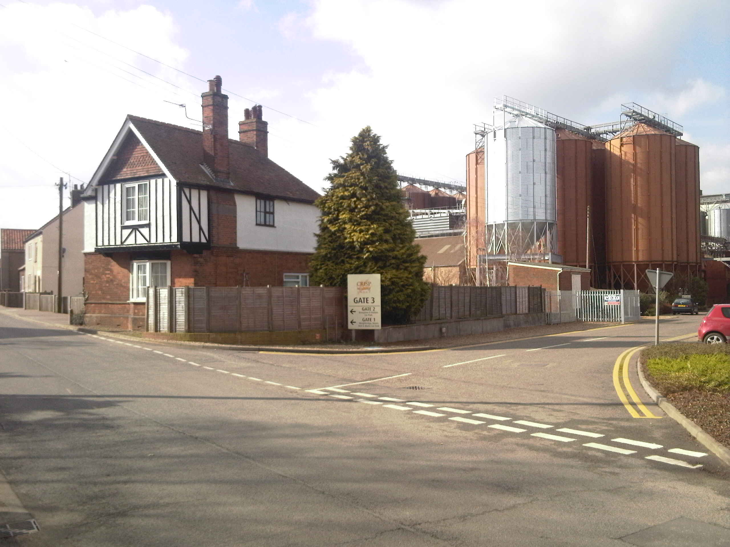 Ryburgh station, Norfolk, 2009. The fence and concrete retaining wall mark the site of the platform, with only the Station Master's house and a small goods shed remaining from the original structures. The road in the foreground was crossed by a level crossing.